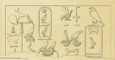 Drawing of a rock inscription of Khufu from the Wadhi Maghara, made by Karl Richerd Lepsius.